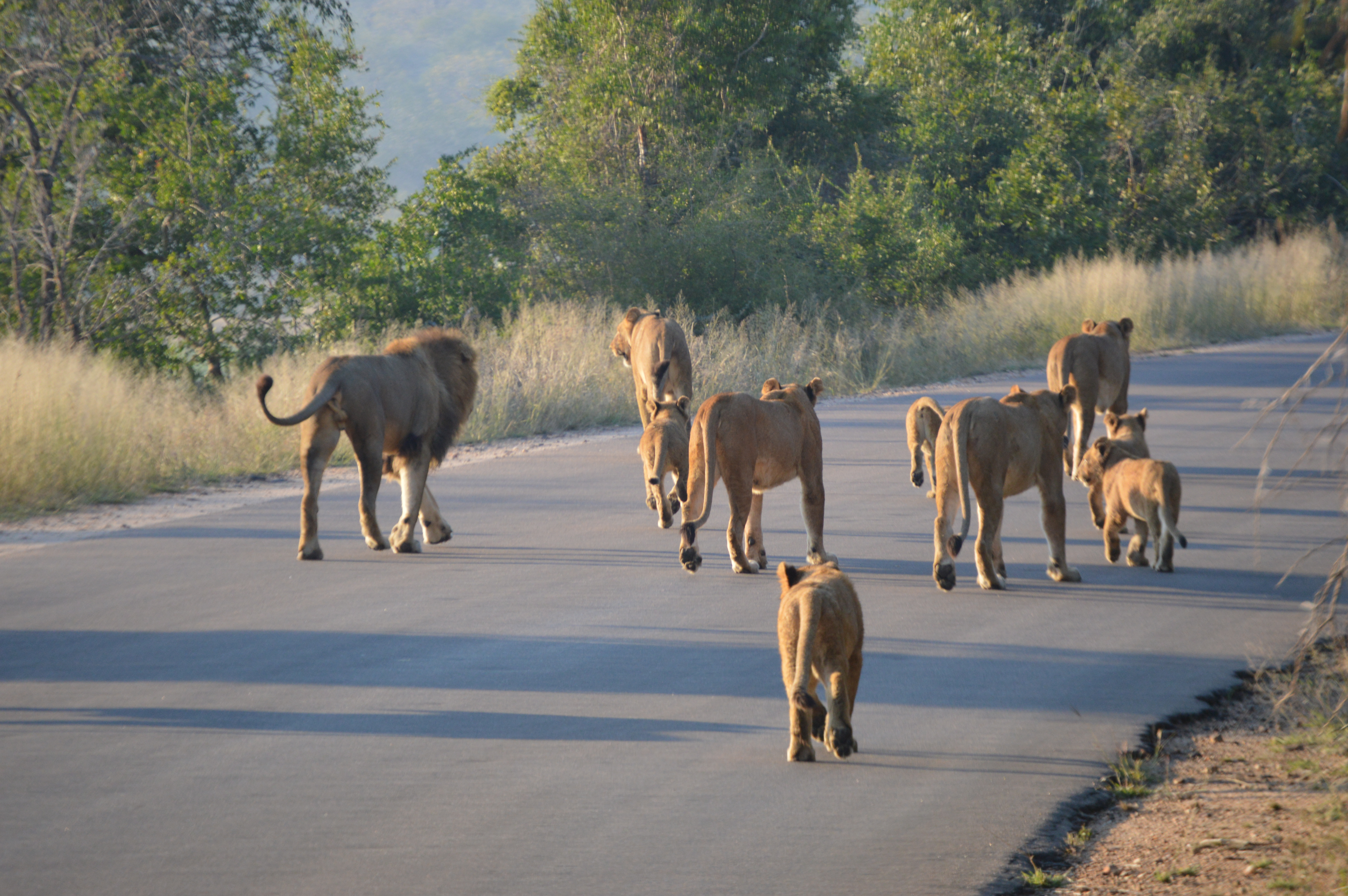 Pride of lions in Kruger National Park South Africa